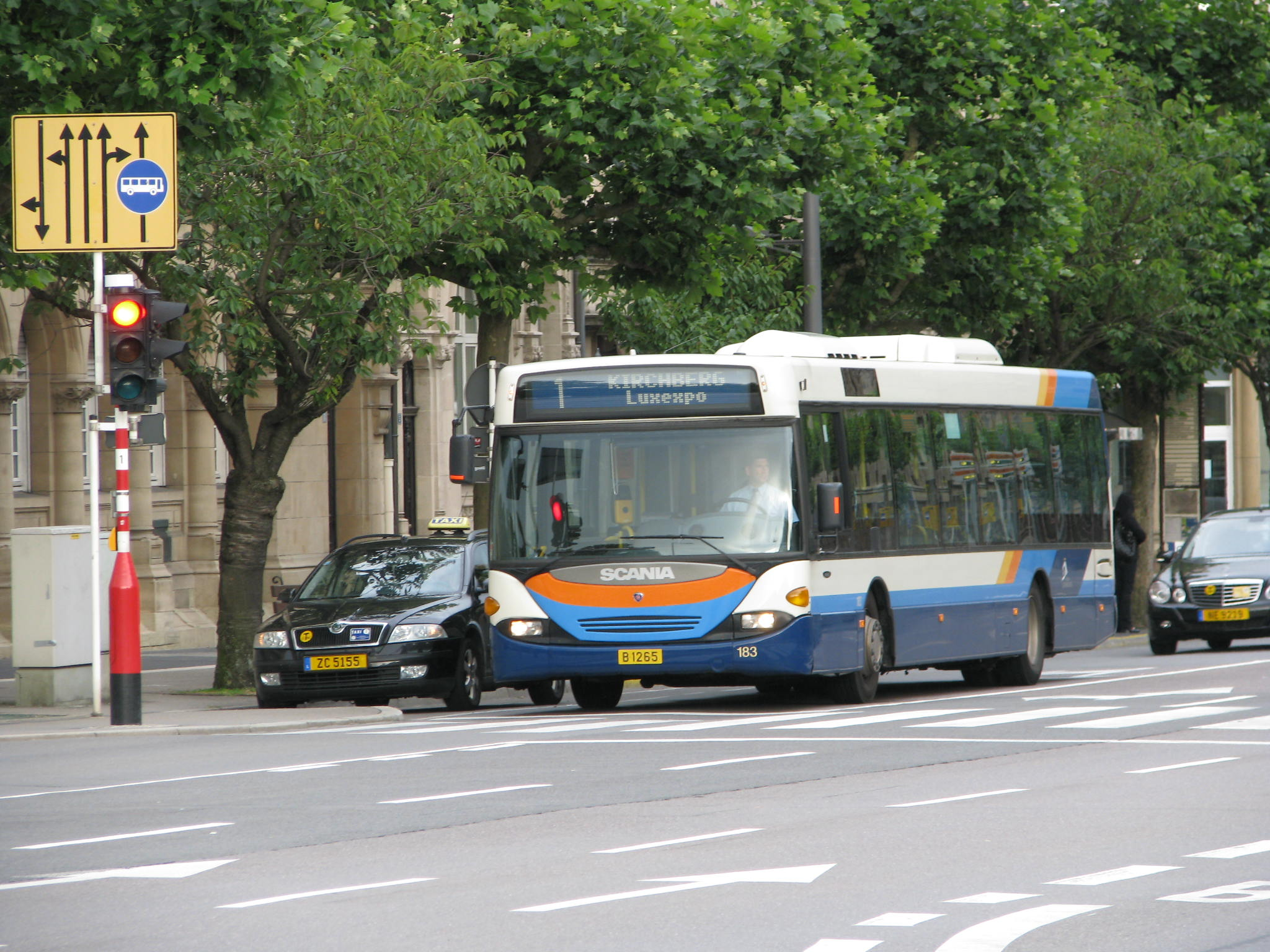 Bus in Luxembourg City. Scania CN94UB OmniCity bus (#183). Year built to 2004. Autobus de la Ville de Luxembourg (AVL) company.